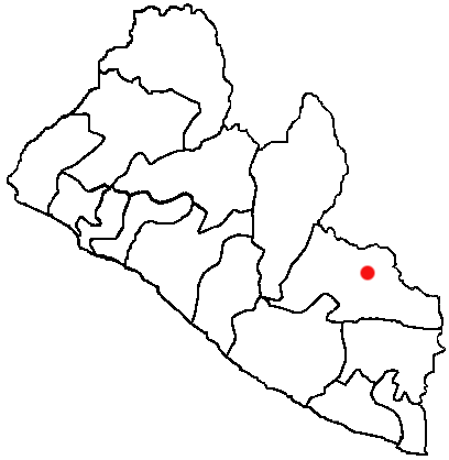 Zwedru, Liberia Location Map; created with the GIMP. Made by User:Acntx.